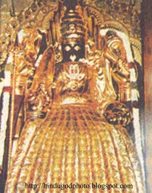 Punnainallur Sri chakra Muthu Mariambigai